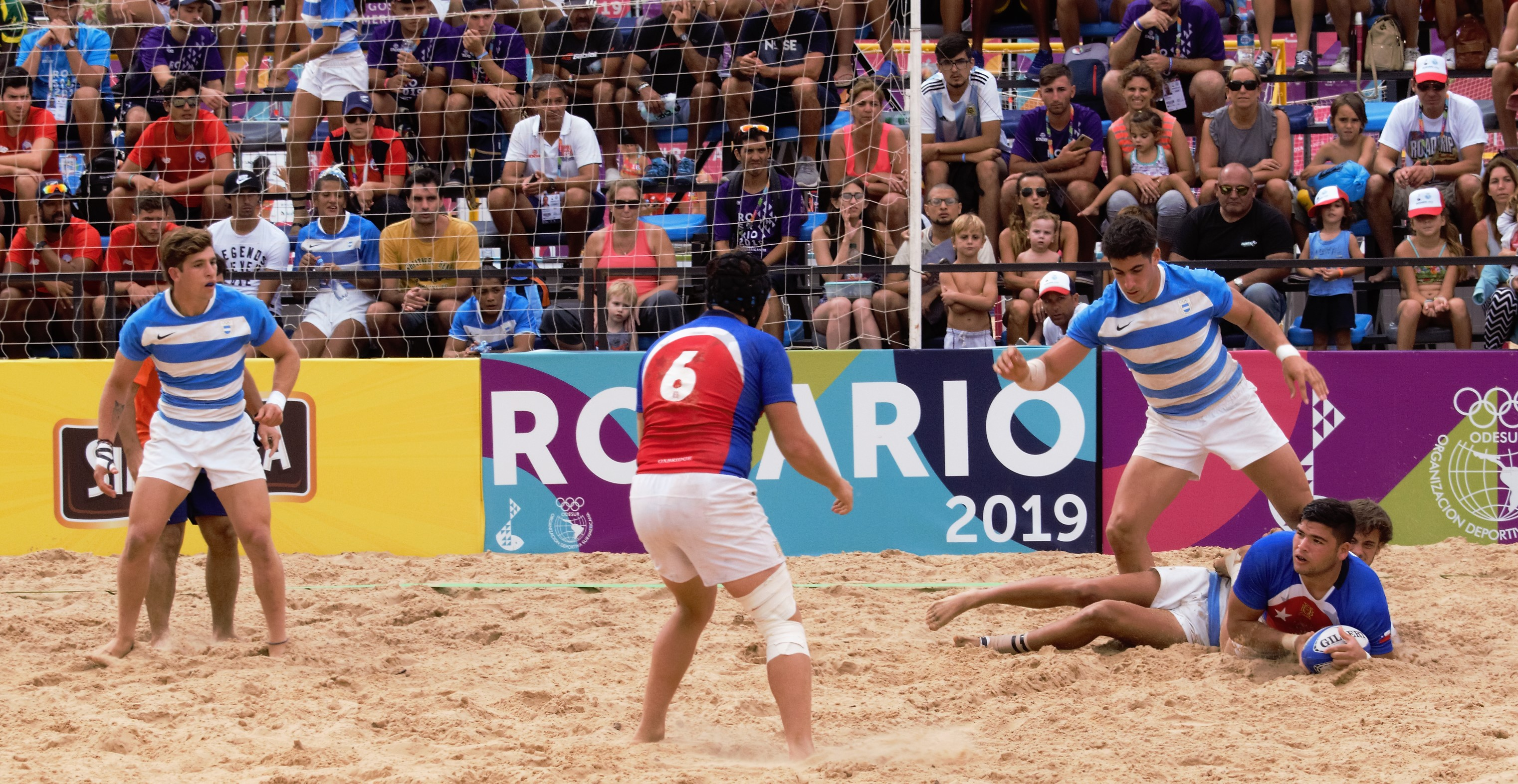 Beach Rugby at the 2019 South American Beach Games. Gold Medal Match, Argentina vs Chile.